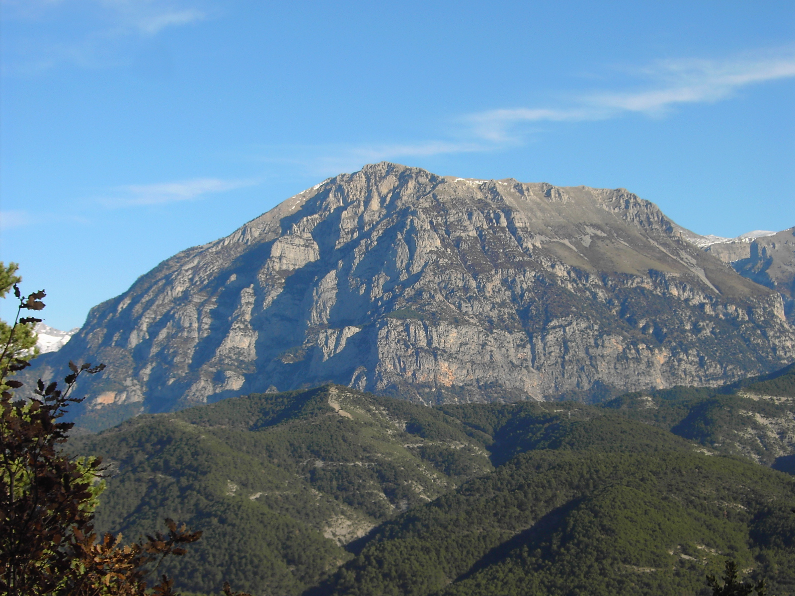 Peak Punta Lierga in Huesca's pyrenees, Spain.